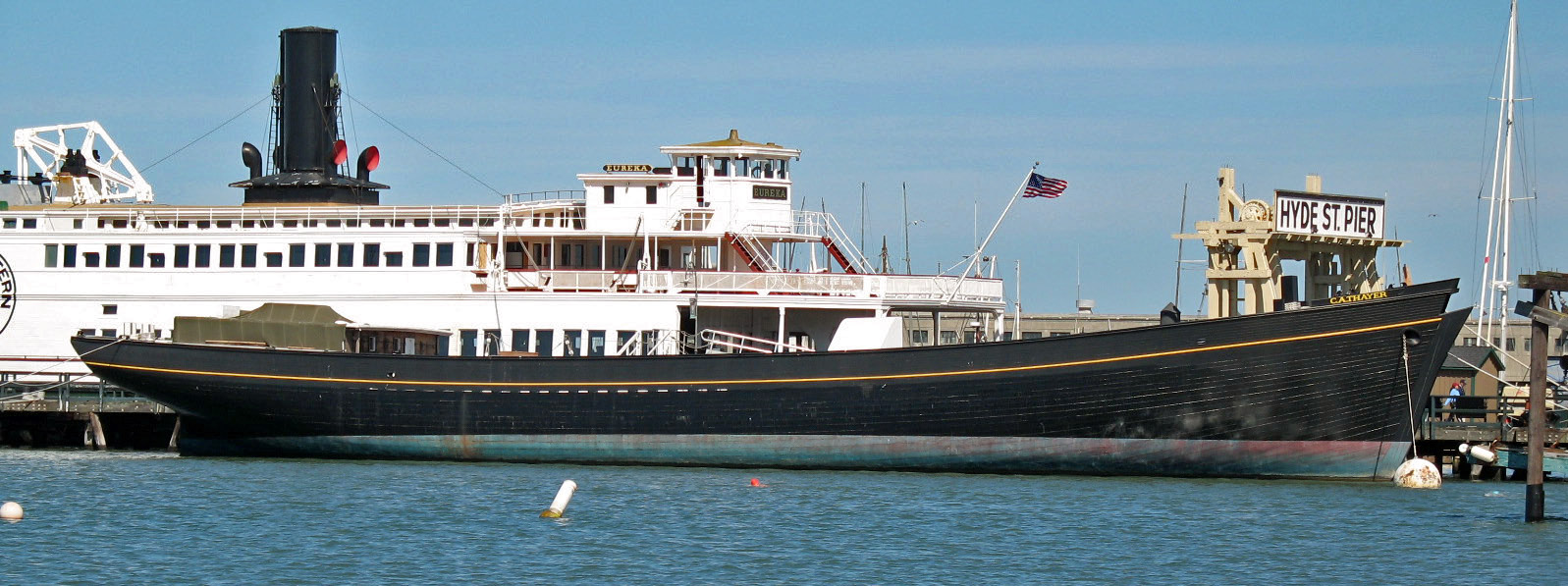 National Register of Historic Places in San Francisco, California. "C. A. Thayer", San Francisco Maritime National Historic Park, San Francisco, California, USA. Photographed 2008-03-08 by Mike Hofmann from Aquatic Park beach. The "Thayer", a lumber schooner built in 1895, was under renovation at the time of this photo. The work is expected to be completed in 2009.